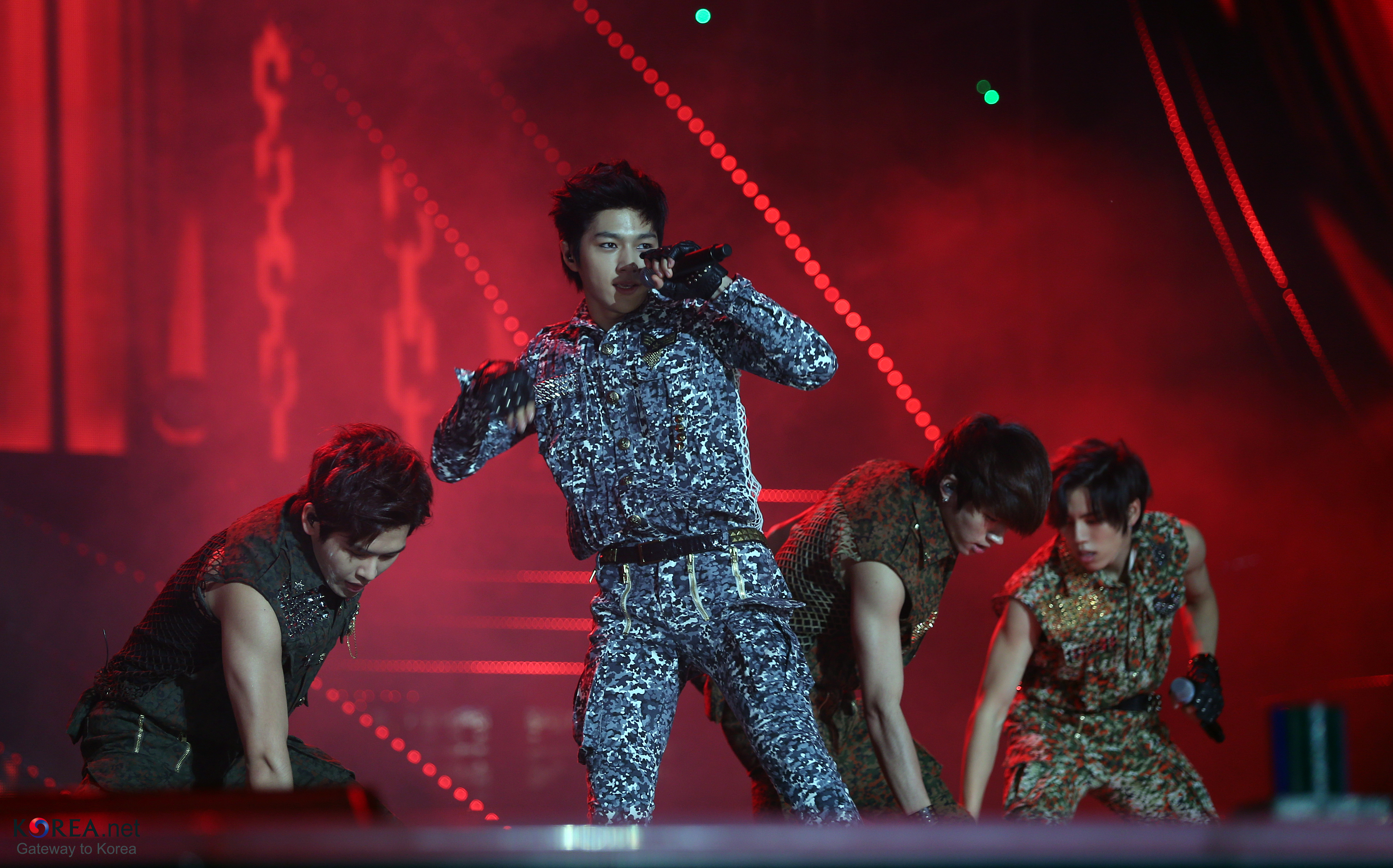 2013 K-POP World Festival in Changwon October 20, 2013 Changwon-si, Gyengsangnam-do Related Articles Cheong Wa Dae K-Pop World Festival unites global fans -English K-Pop World Festival unites global fans -中文 “2013 K-POP世界庆典” 用K-POP连结全世界 -Vietnamese Cả thế giới hội tụ tại “K-pop World Festival 2013” -日本語 「Kポップワールド・フェスティバル2013」、Kポップで世界が一つに -Deutsch „K-Pop World Festival” bringt internationale Fans zusammen -Francais Un festival mondial de la K-Pop 2013 de haute volée -Russian K-Pop World Festival объединяет фанатов со всего мира -Arabic المهرجان العالمي للبوب الكوري يوحد الجماهي Ministry of Culture, Sports and Tourism Korean Culture and Information Service ( Jeon Han 2013 제3회 K-POP 월드페스티벌 2013-10-20 경상남도, 창원시 문화체육관광부 해외문화홍보원 코리아넷 전한